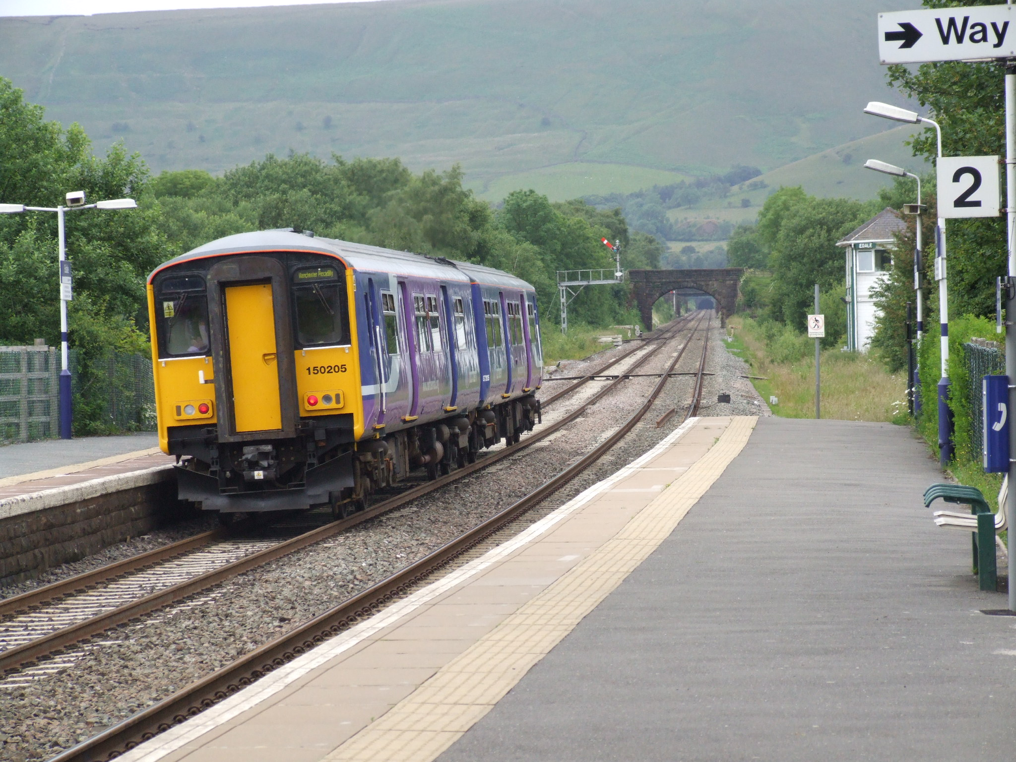 Edale is a small Derbyshire village and Civil parish in the Peak District of England. The Parish of Edale, area 2,844.8ha is in the Borough of High Peak. 150205 in Northern Rail livery leaving Edale station on the Hope Valley Line for Manchester. It will pass through the Cowburn Tunnel; the portal is visible in the distance. - OpenStreetMap(Info)